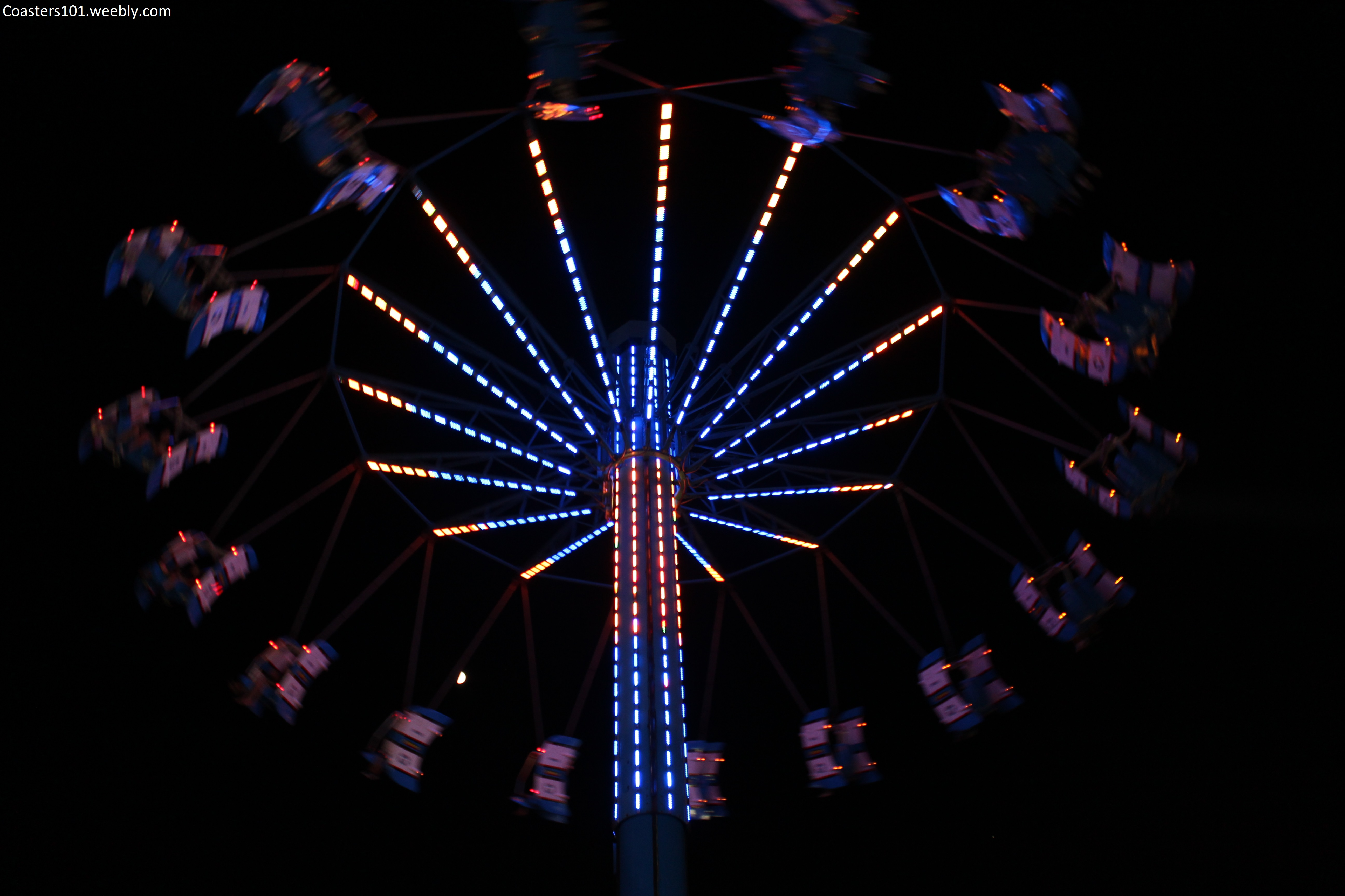 Aviator at Kemah Boardwalk